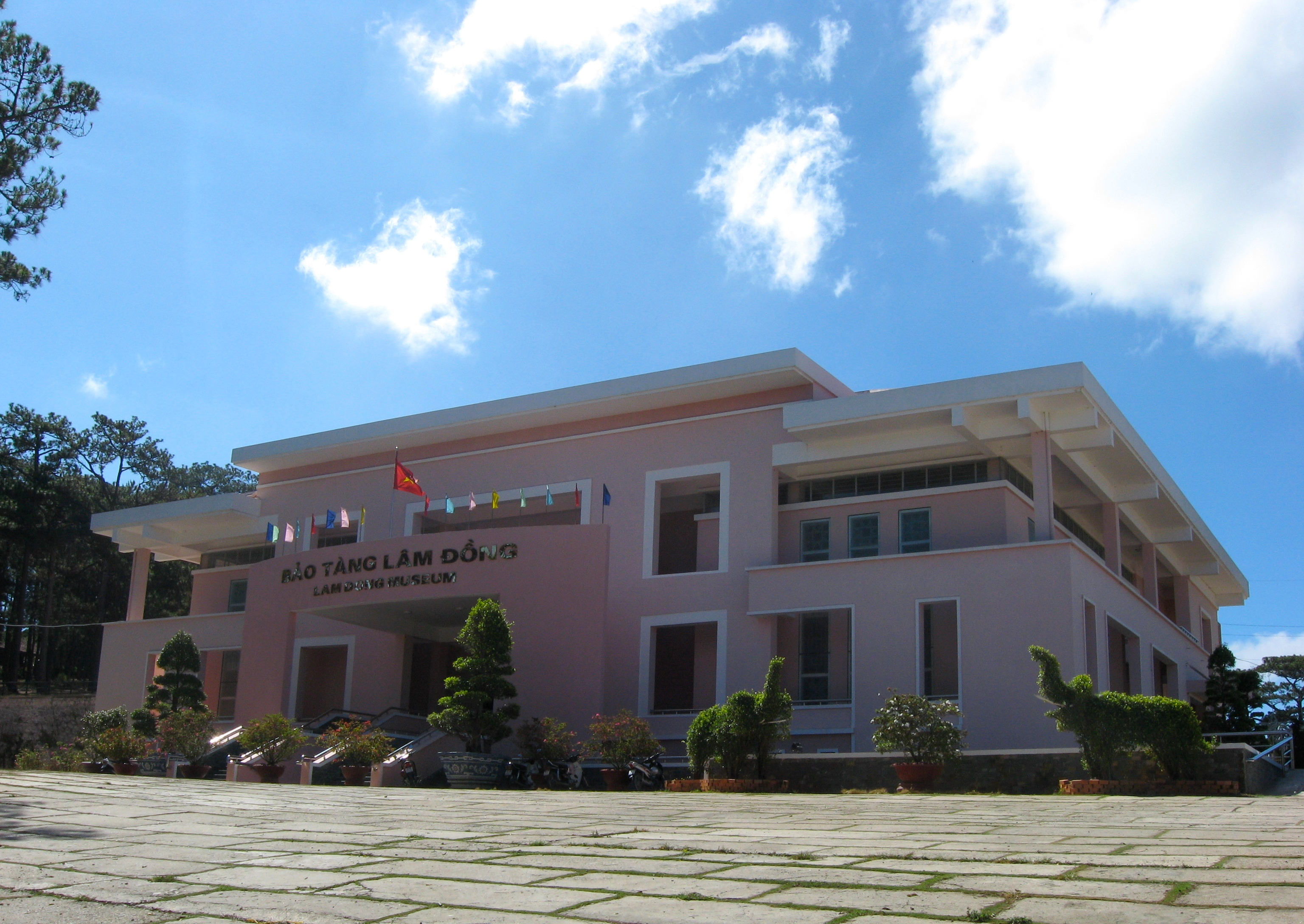 Lam Dong Museum, Da Lat